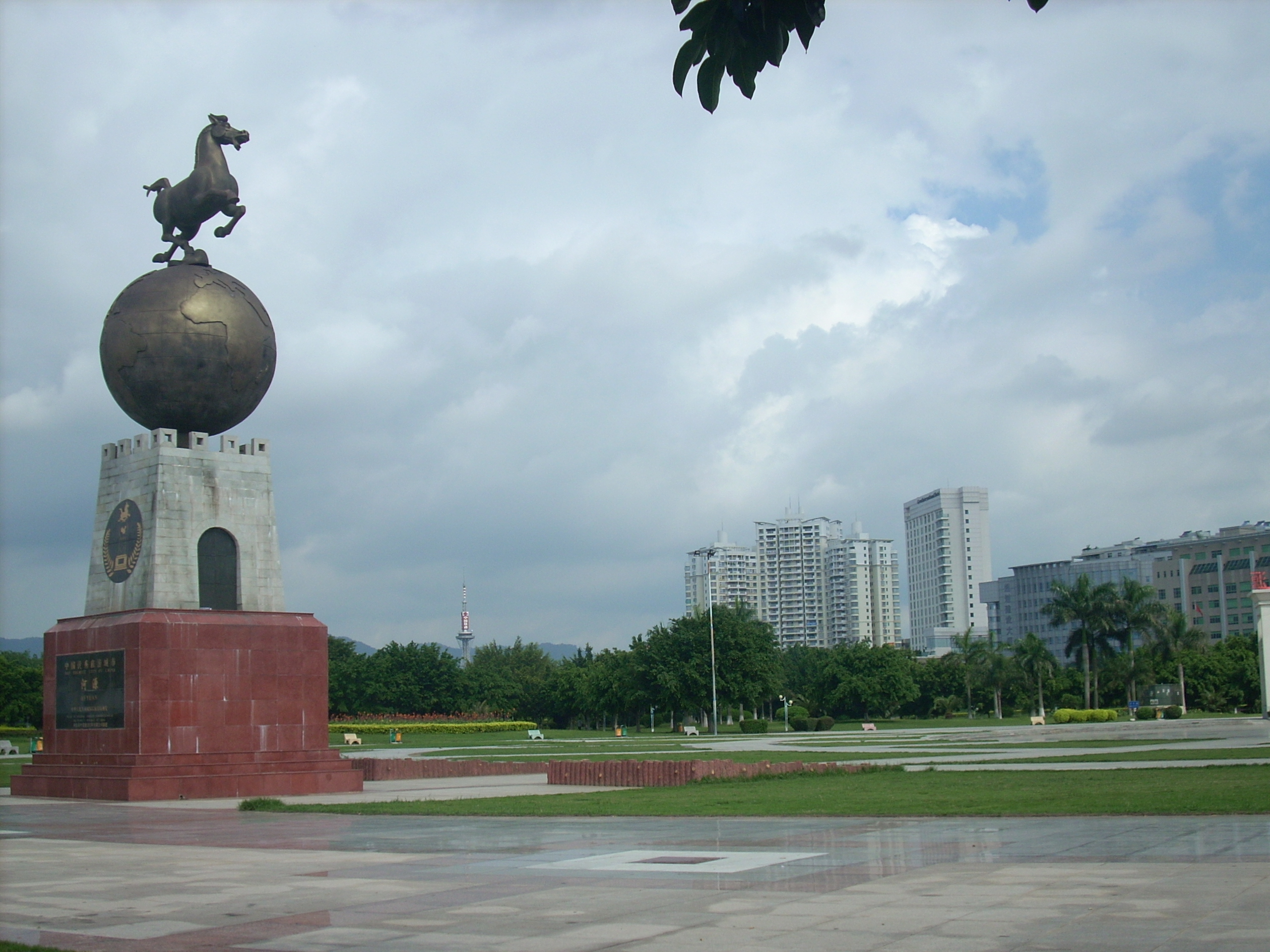 The square of Heyuan